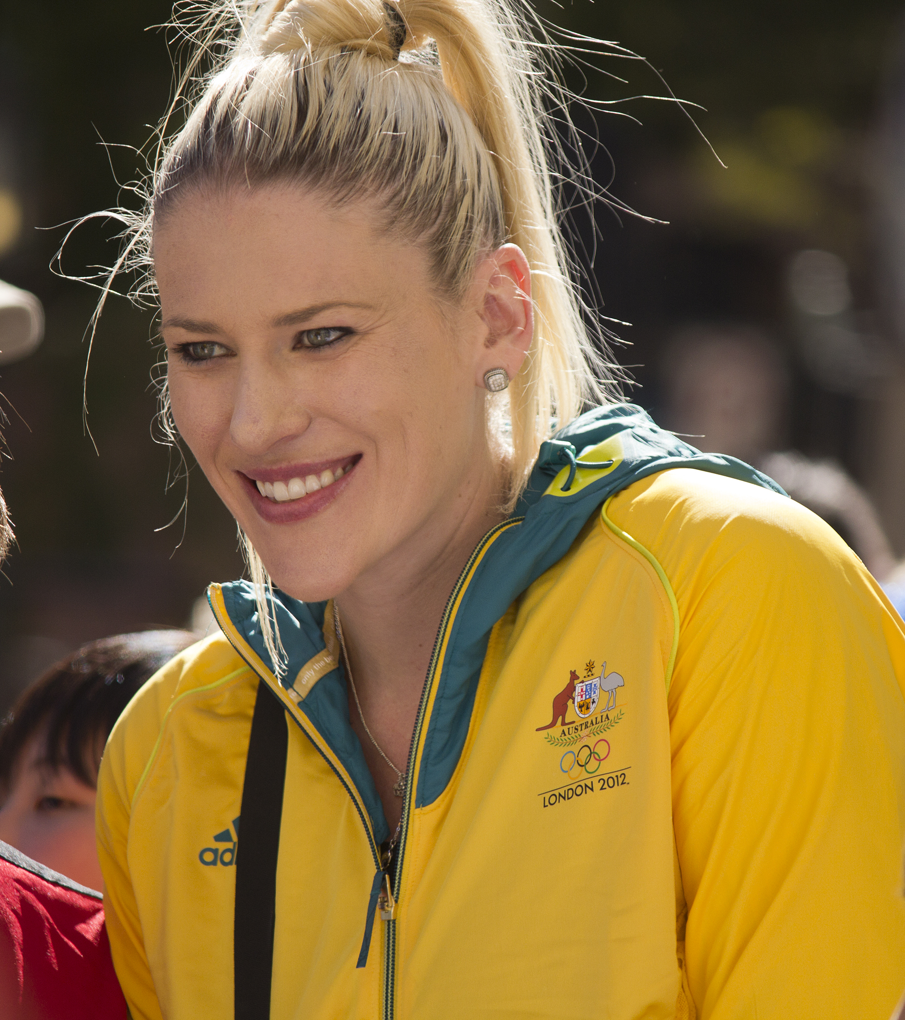 Lauren Jackson at the Welcome Home parade in Sydney.